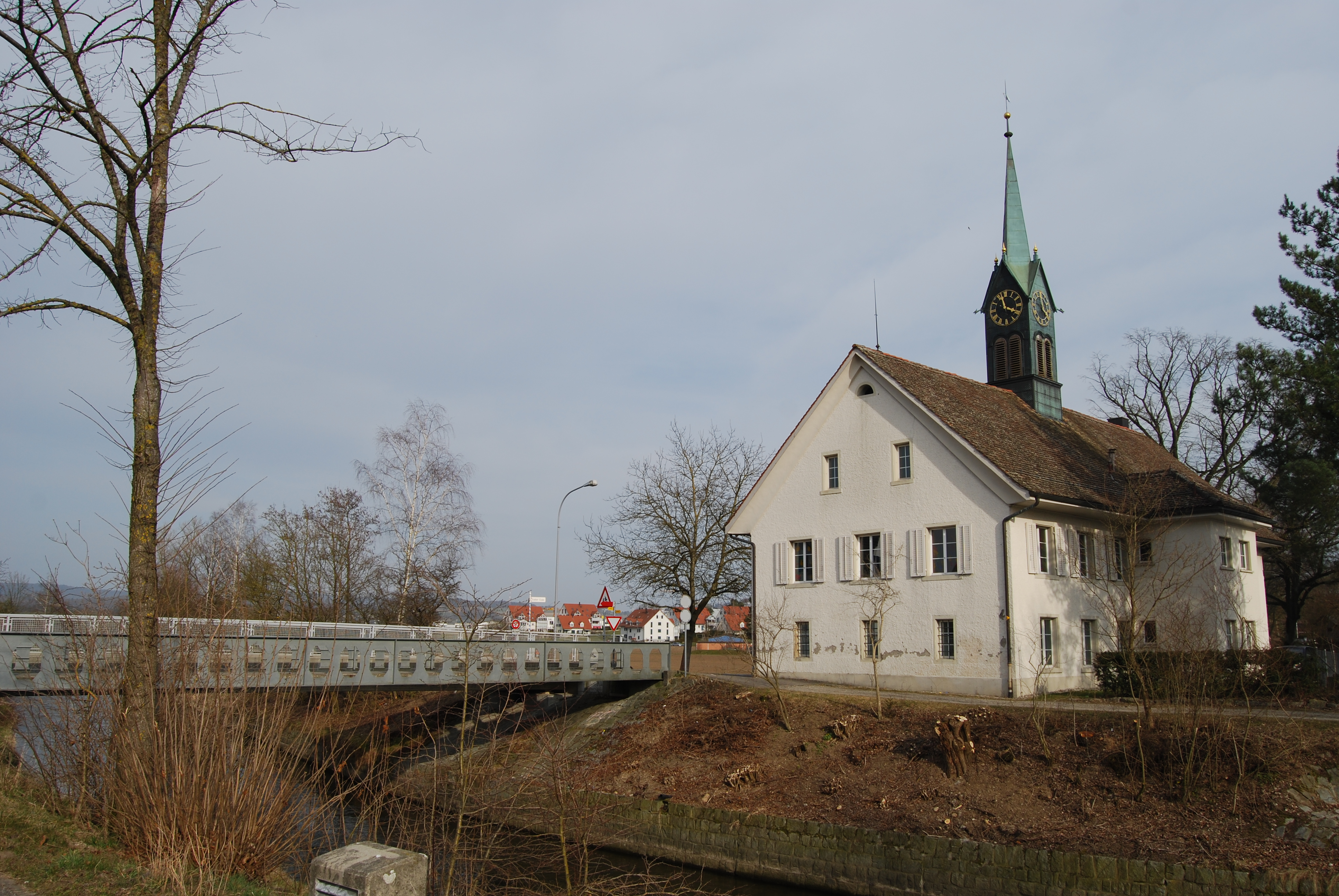 School of Höri, canton of Zürich, Switzerland